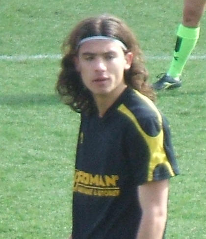 A photo made by me.